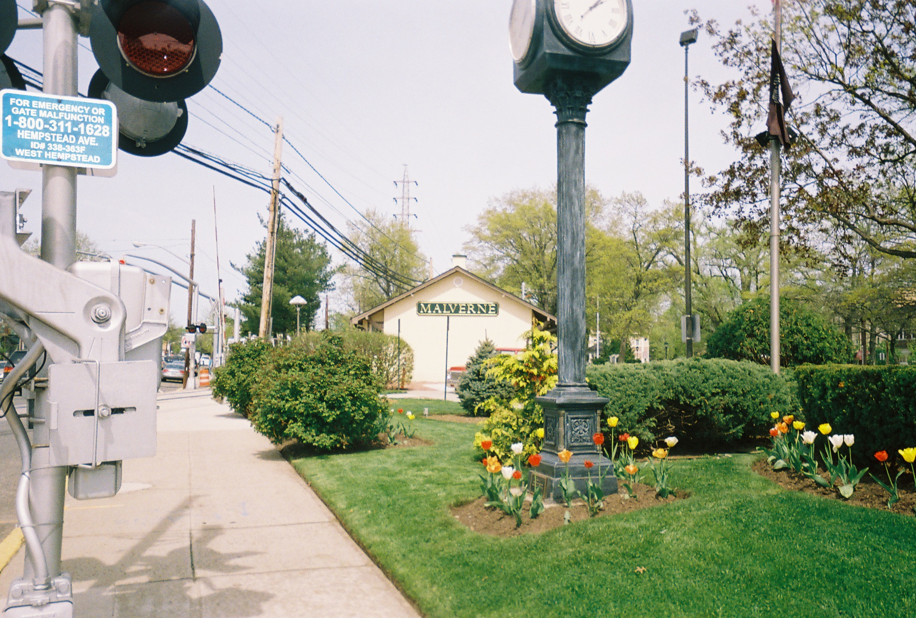 Another image of the historic Malverne (LIRR station), except from the grade crossing at Hempstead Avenue. Note the station clock in front of it. Malverne station is one of the few stations on the West Hempstead Branch of the Long Island Rail Road to have existing station houses.